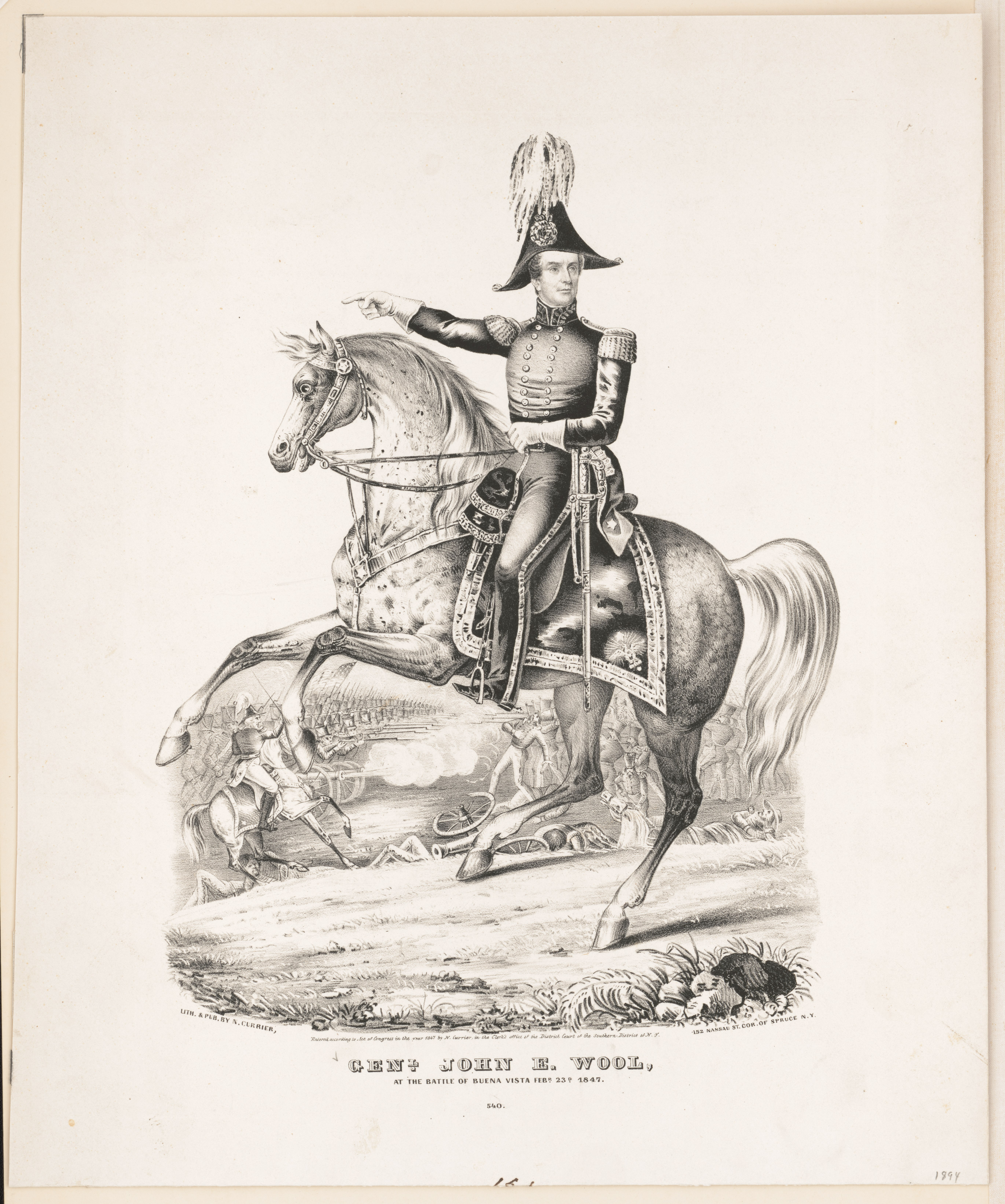 Title: Genl. John E. Wool: at the battle of Buena Vista Febr. 23, 1847 Physical description: 1 print : lithograph.